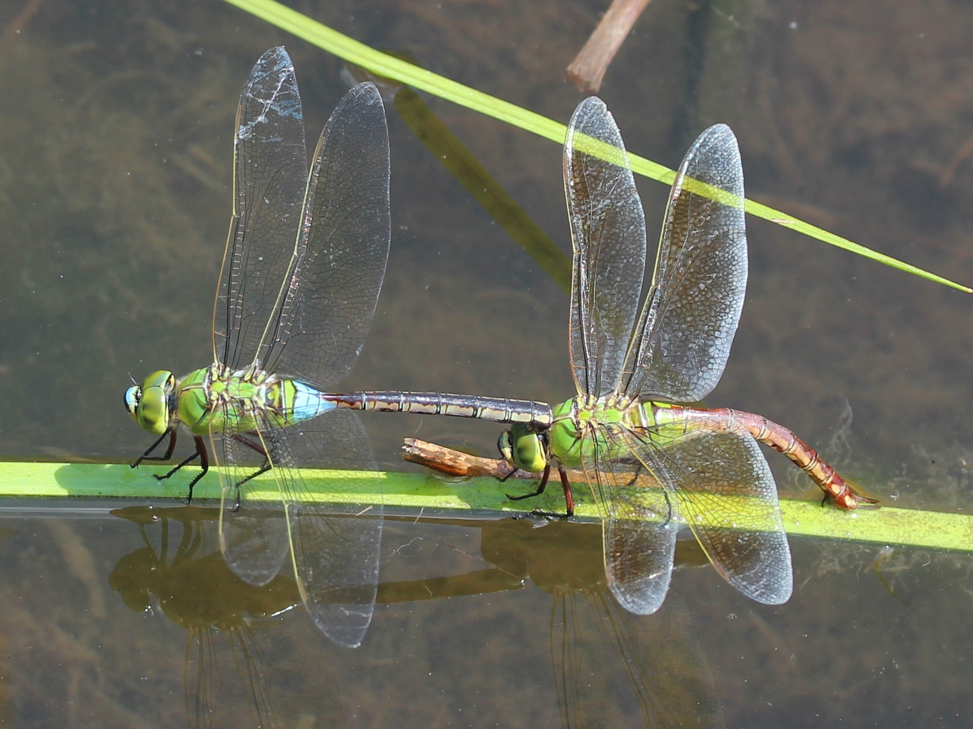 Anax parthenope (Lesser Emperor) in Japan